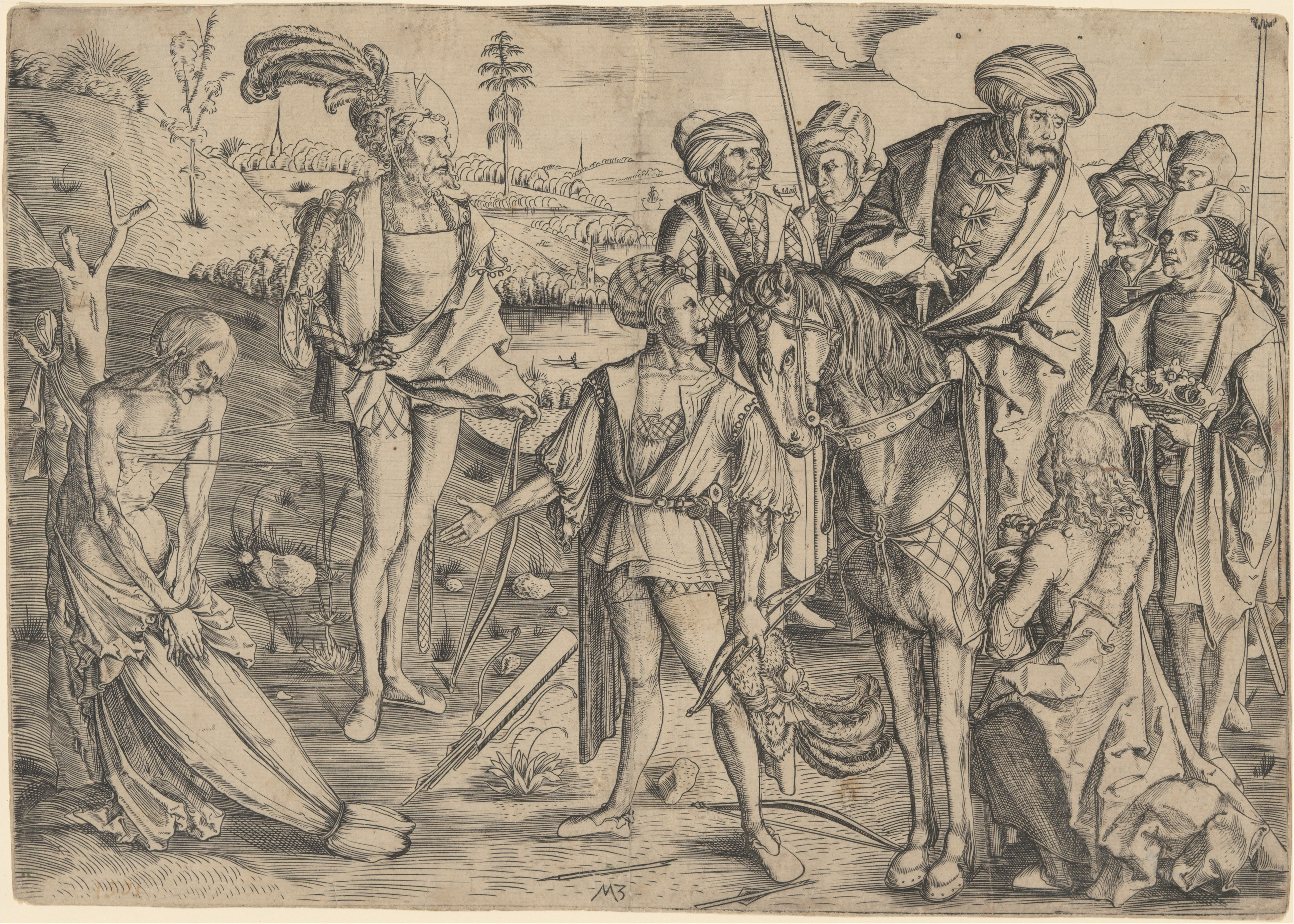 Print; Prints